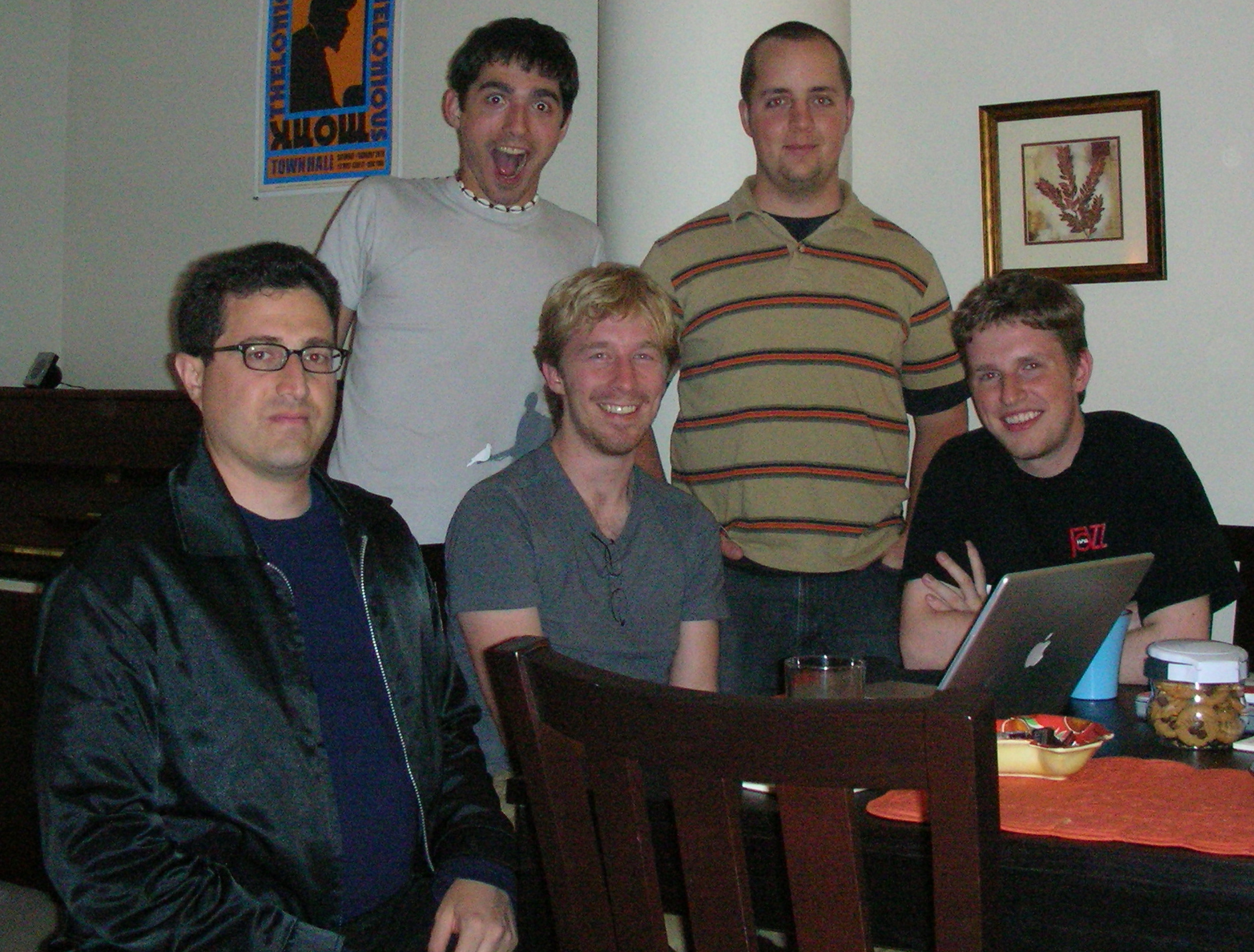 Five of the six originators of BarCamp: Tantek Çelik, Chris Messina, Ryan King, Andy Smith (termie), and Matt Mullenweg.